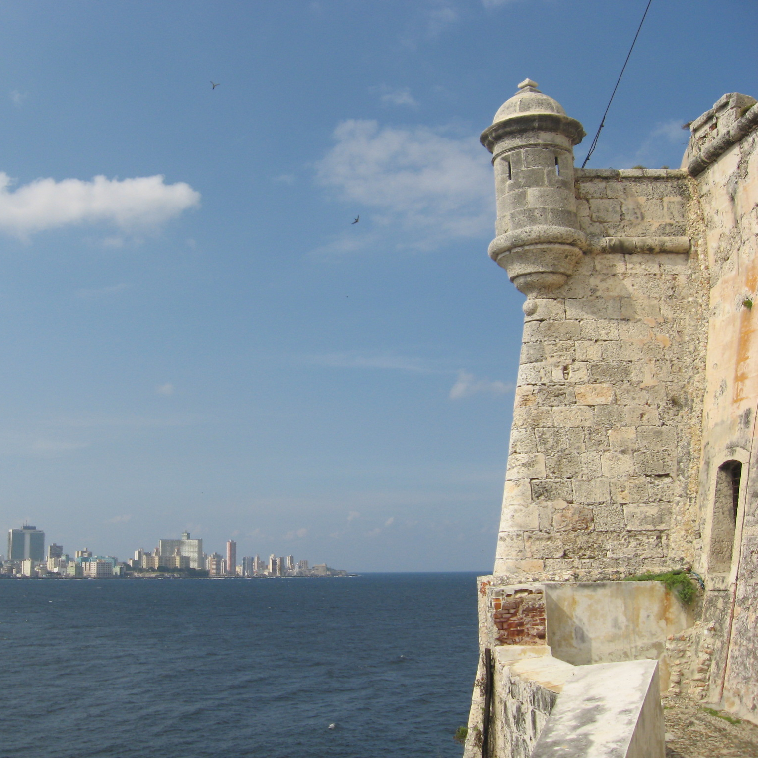 Turret of the Castillo del Morro guarding Havana harbour, Cuba